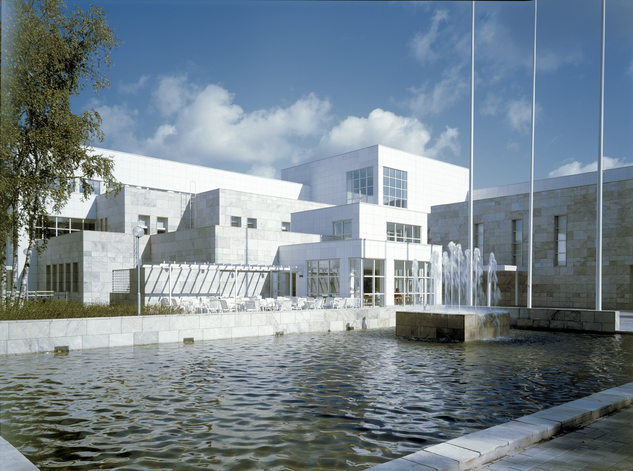 Lahden aikuiskoulutuskeskus - Arto Sipinen